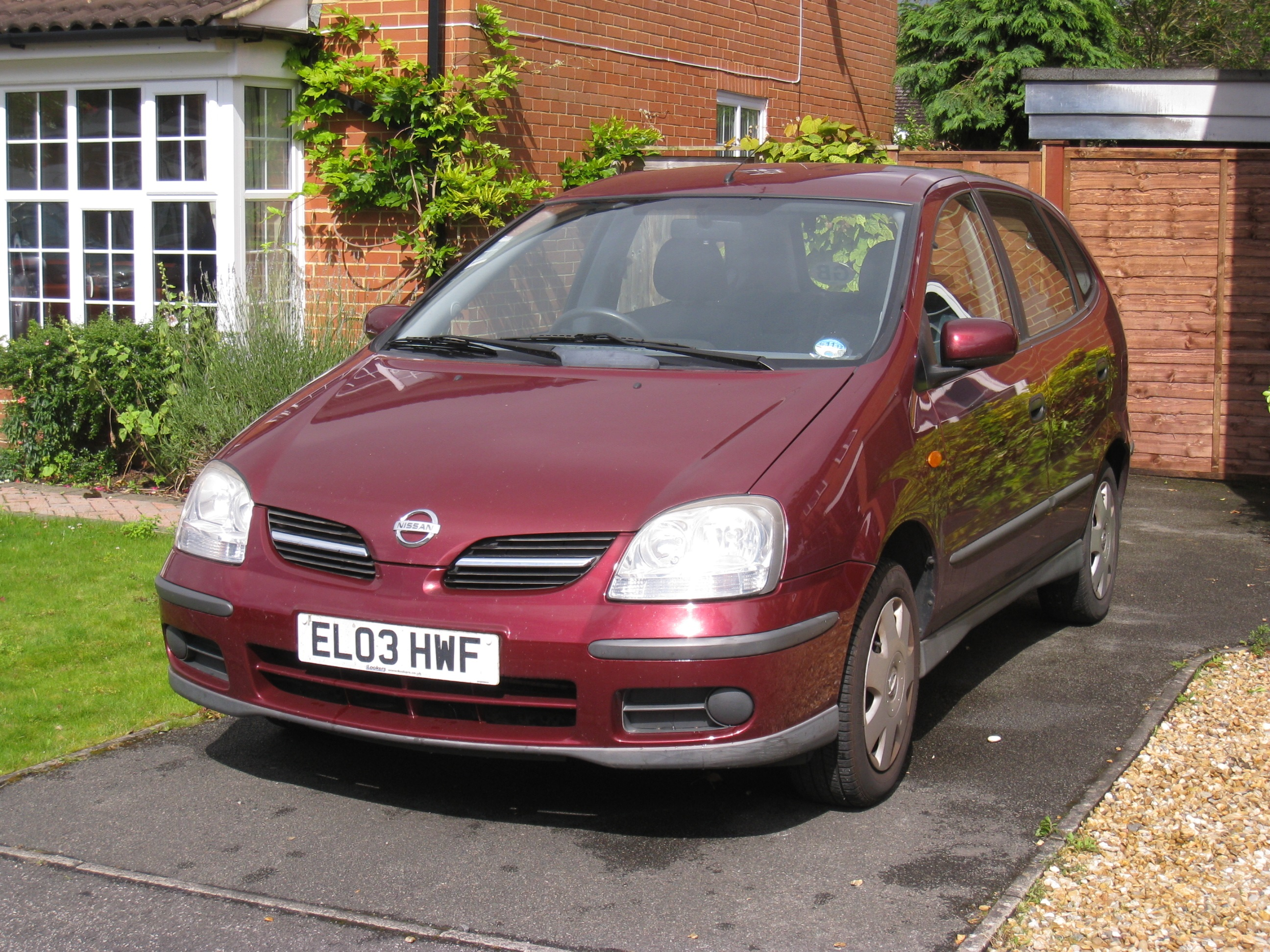 2003 British-registered right-hand drive Nissan Almera Tino (Front view). This particular vehicle has a 1.8 litre engine. Note the one or more of the letters on number-plate on this image has been modified to preserve the privacy of the owner. The characters "03", which indicate the age of the vehicle in the United Kingdom are correct.